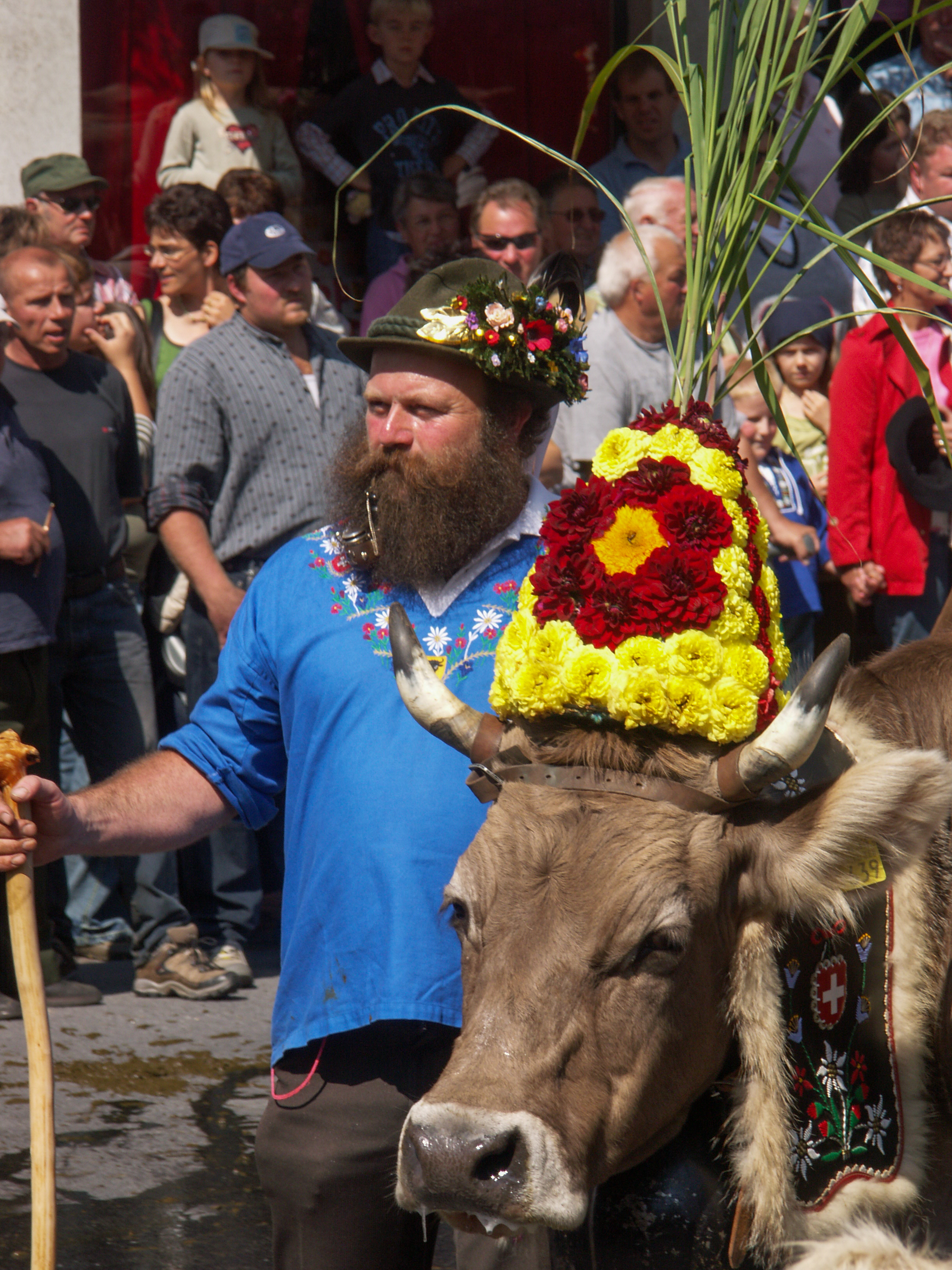 Cattle drive in Mels. 2007